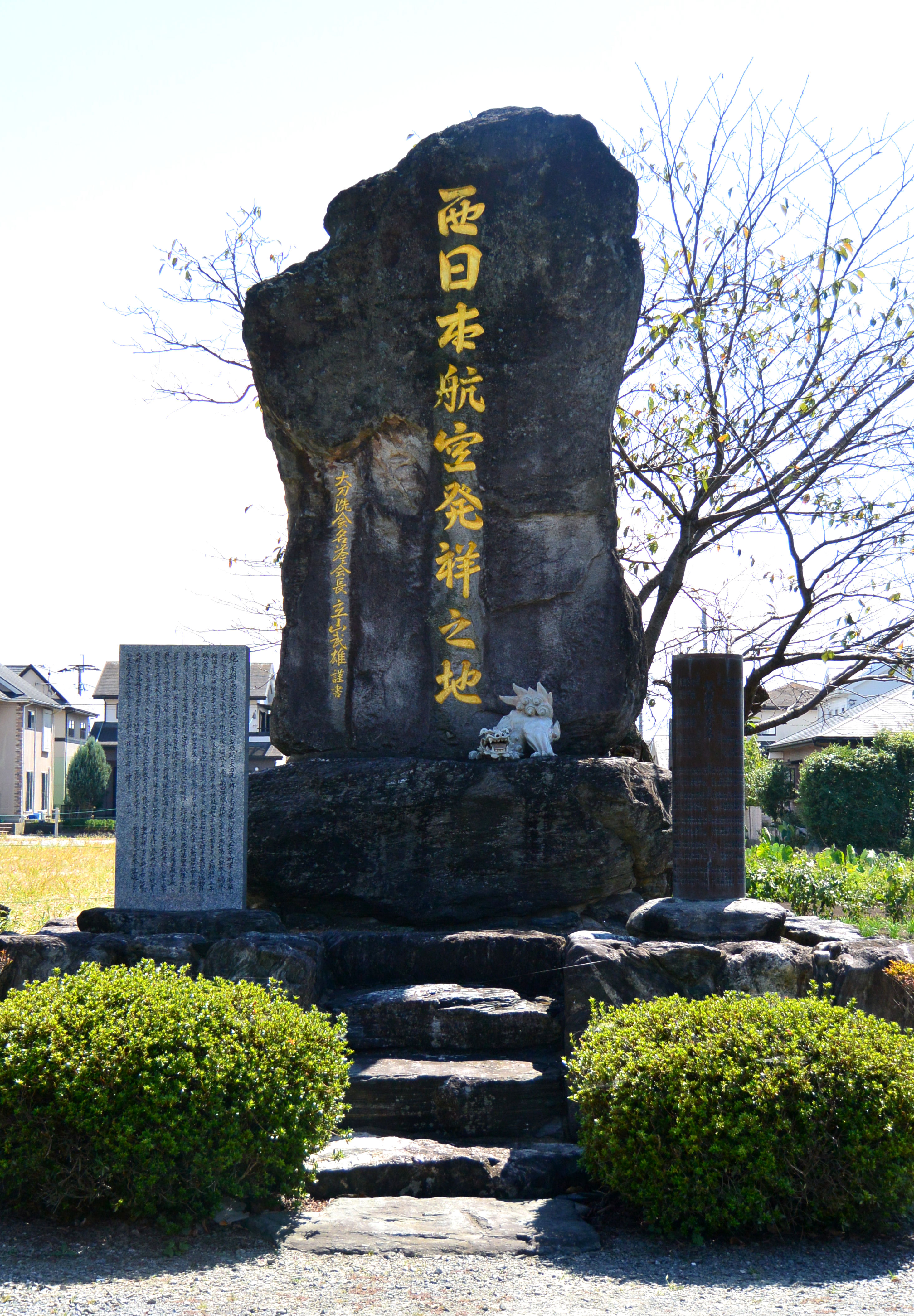 Monument of Tachiarai airport, Japanese Army used this airport till WW2